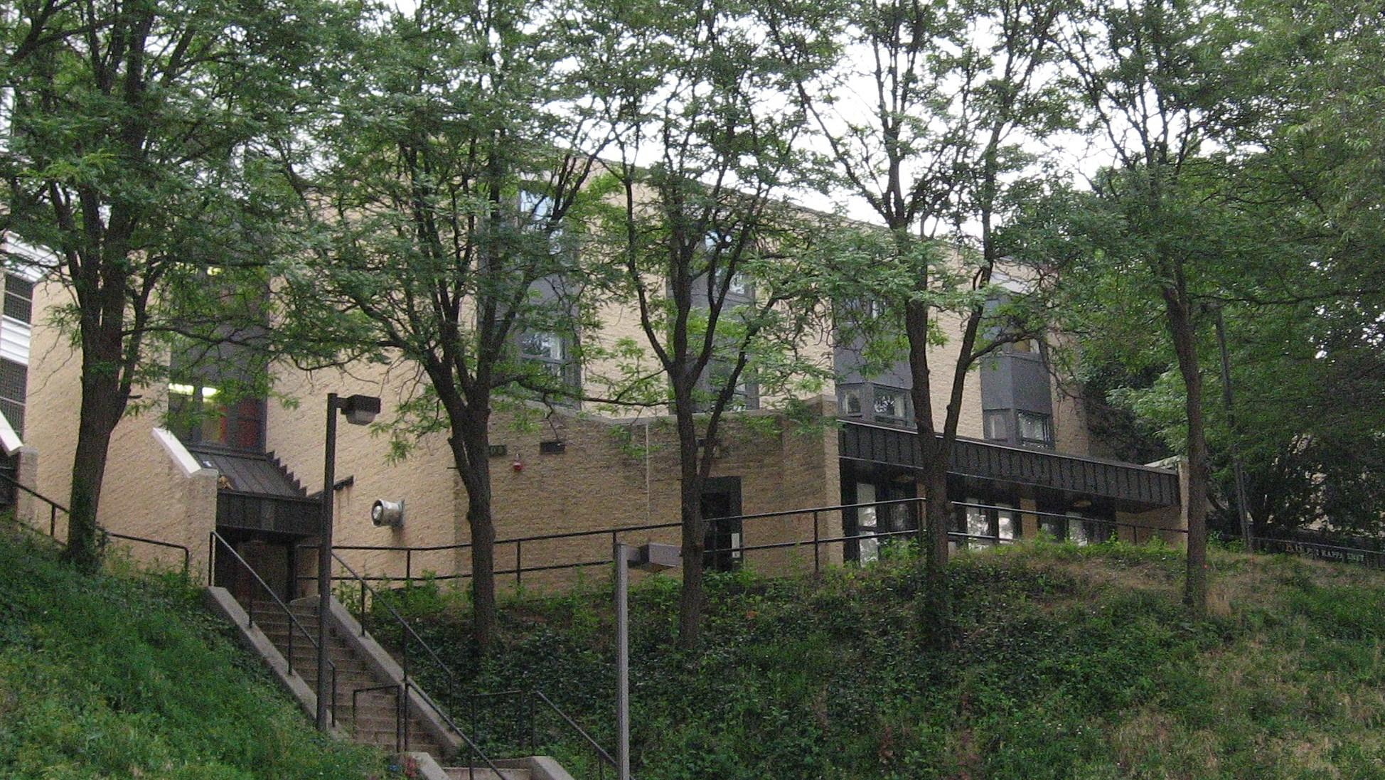 A fraternity house on the Upper Campus of University of Pittsburgh 40°26′42.8″N 79°57′37.7″W / 40.445222°N 79.960472°W